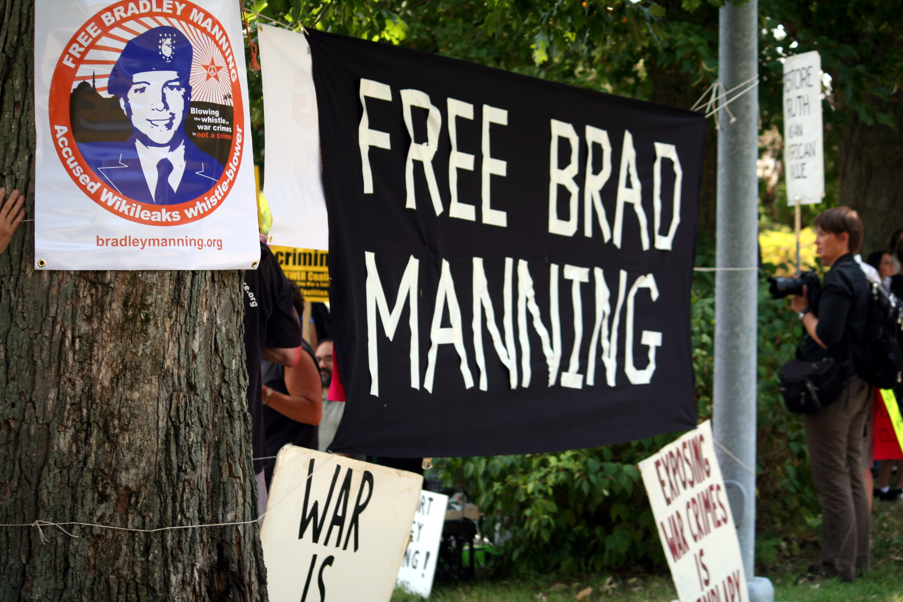 Rally in support of Bradley Manning in Quantico, Virginia.